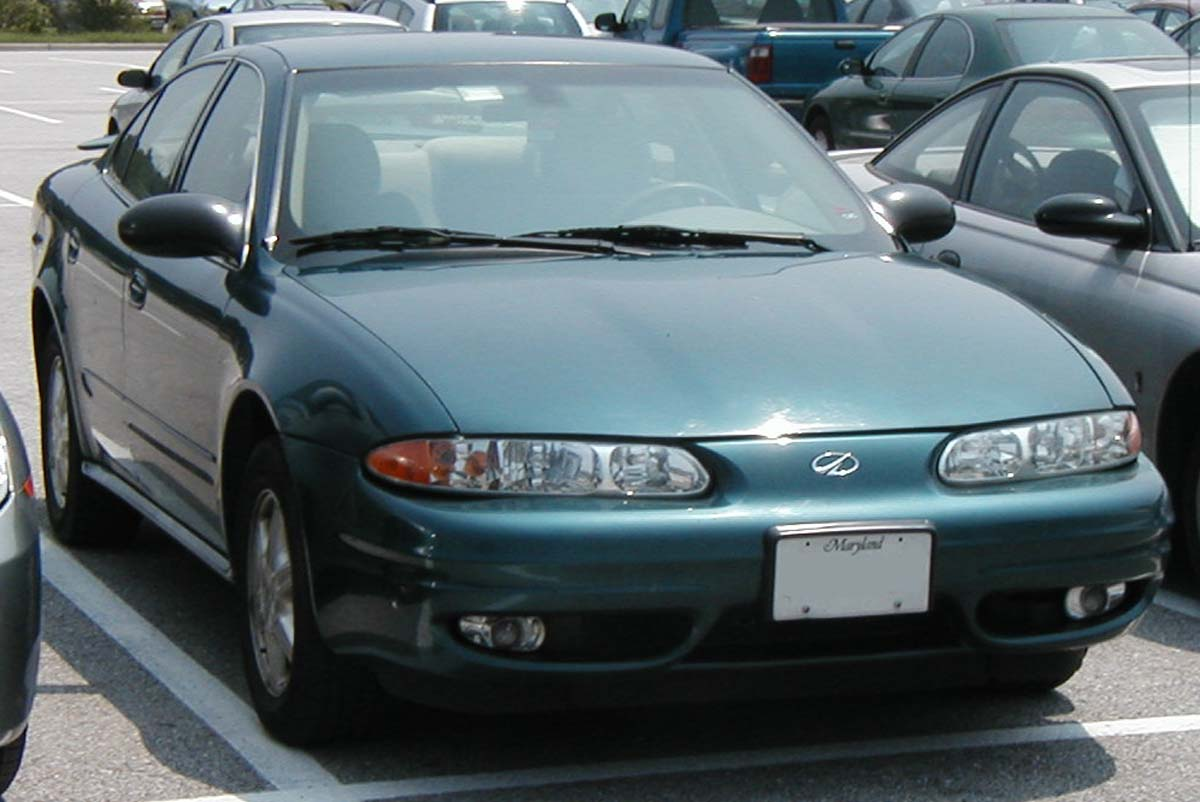 Oldsmobile Alero sedan photographed in USA.